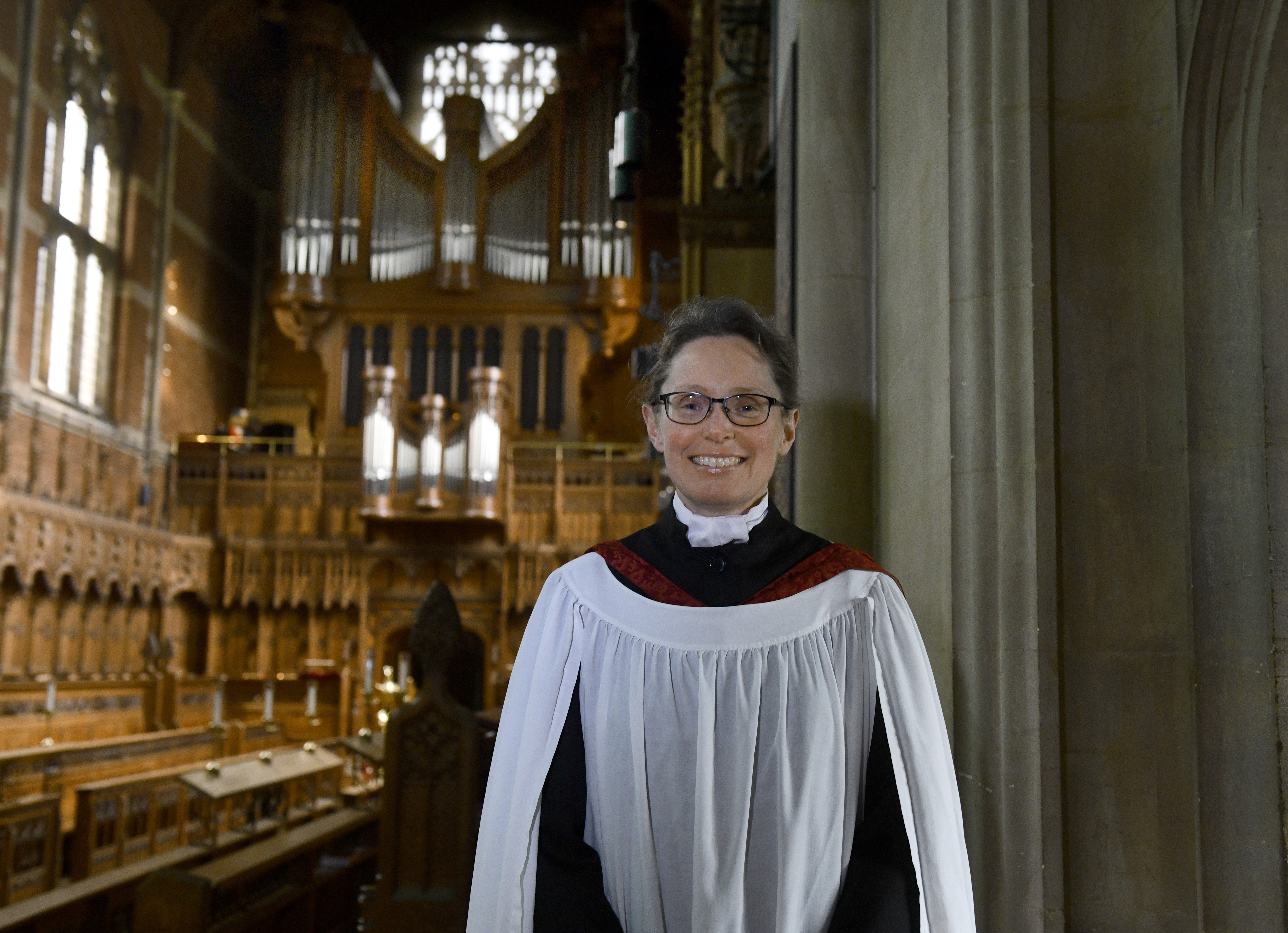 Photo of Sarah MacDonald taken in Selwyn College Chapel in 2019